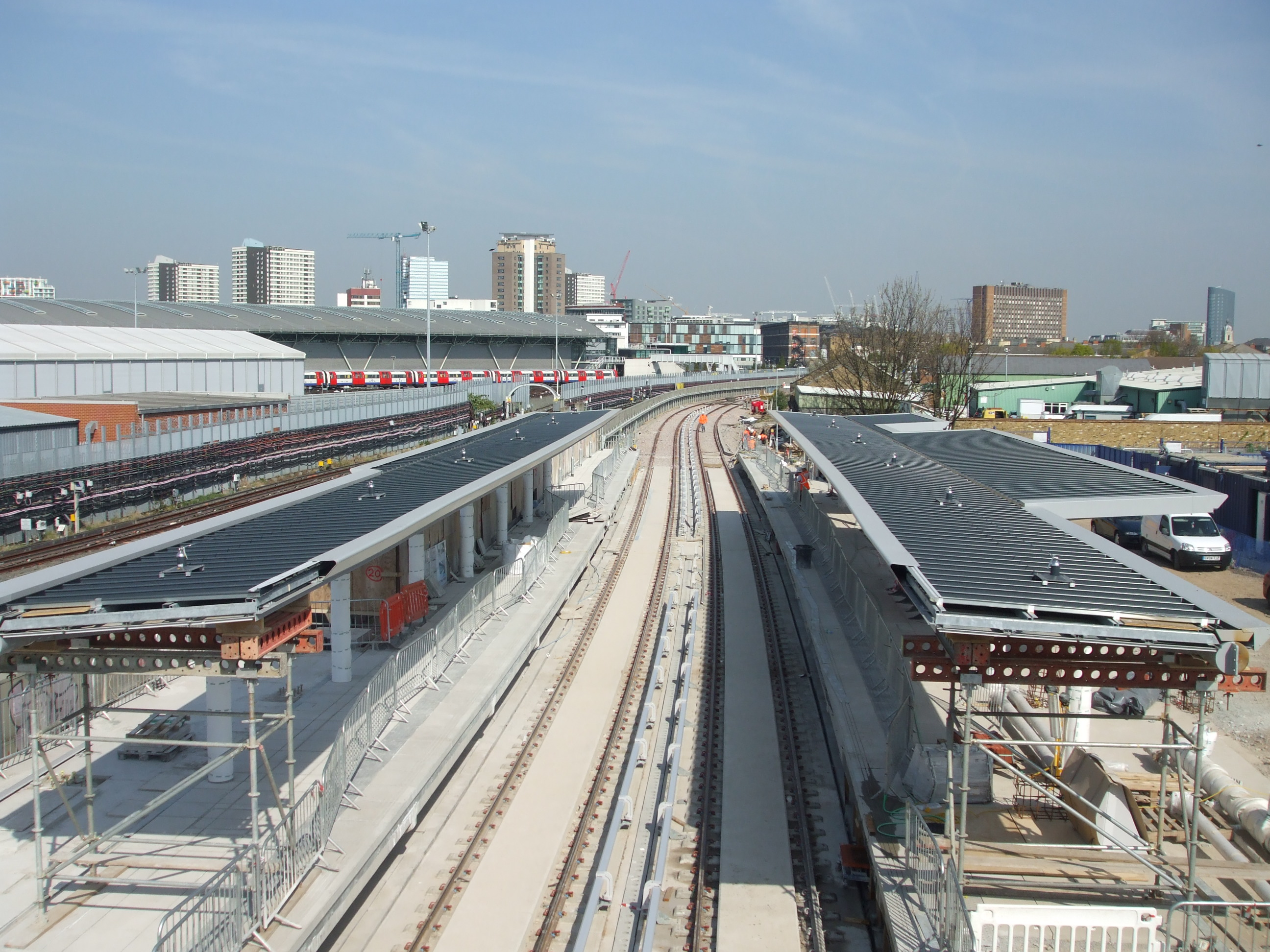 Abbey Road DLR station looking north from road bridge, while under construction in April 2010.